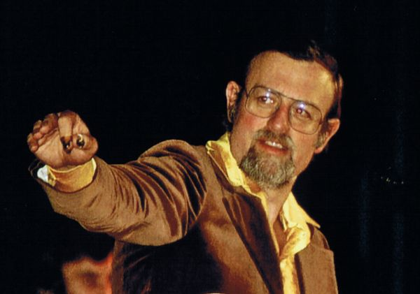 Roger Whittaker during a concert given at the Weser-Ems-Hall at Oldenburg (Lower Saxony, Germany) in 1976